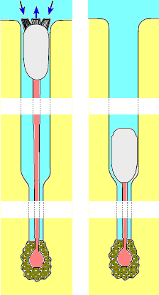 Lingulid brachiopod in "up" and "down" position. Ref